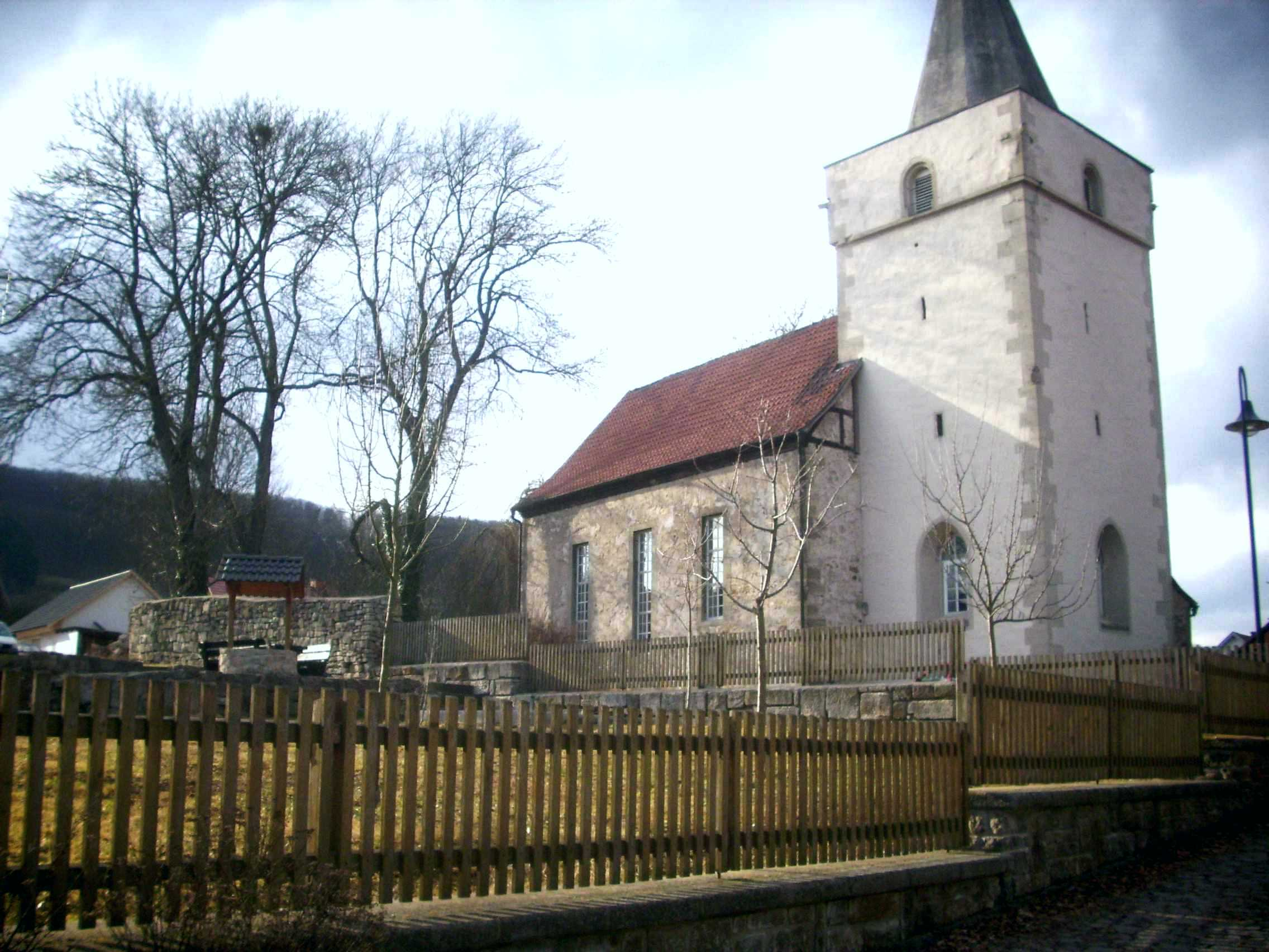 Ritschenhausen (Church-Castle); District of Schmalkalden-Meiningen; Federal State (and Free State) of Thuringia; Germany In the late 16th century most parts rebuilt; of special interest: Church tower with former battlement on top, sculpture (probably the architect); remaining parts of the curtain in low size.